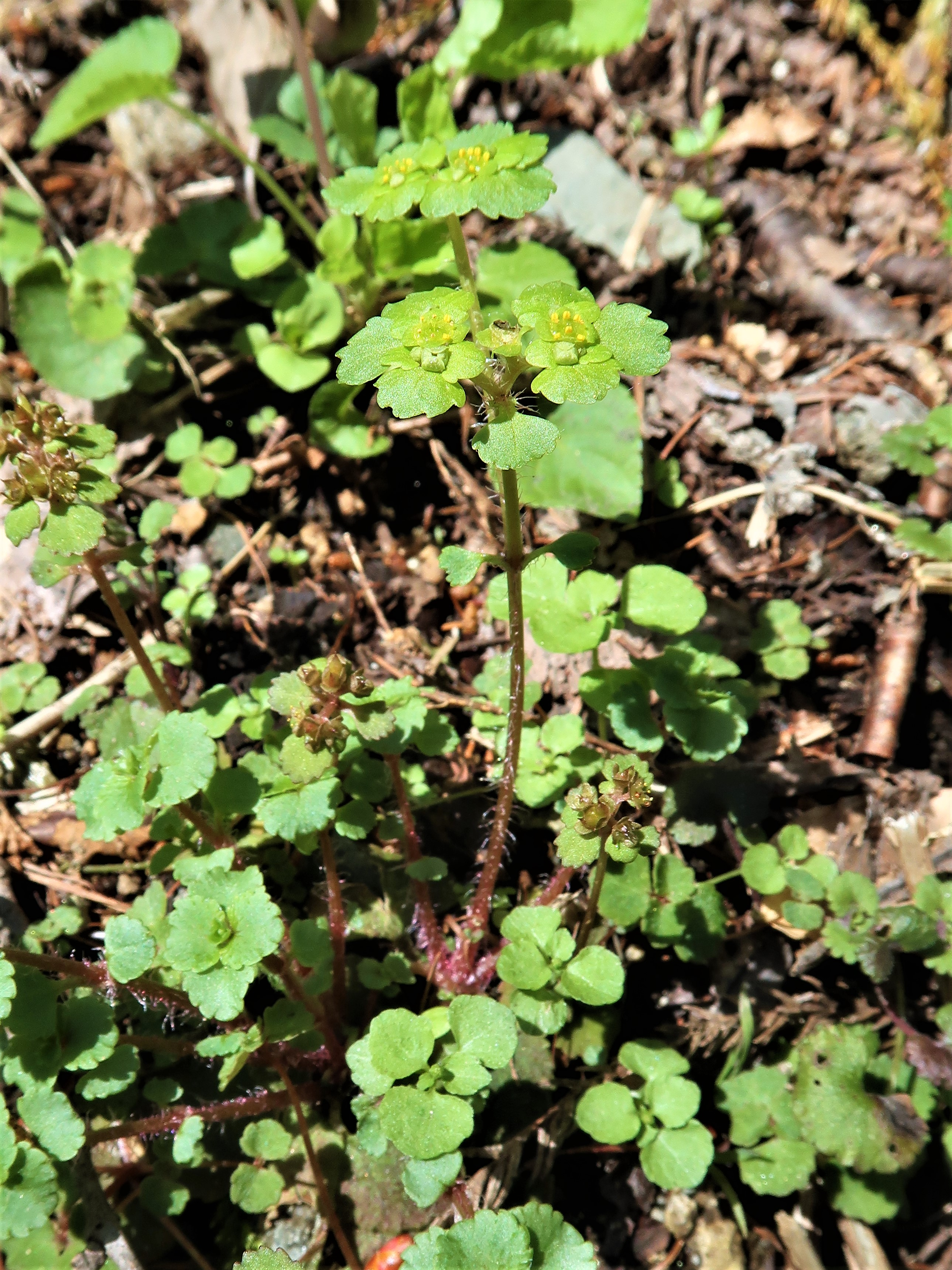 Chrysosplenium ramosum, Aizu area, Fukushima pref., Japan